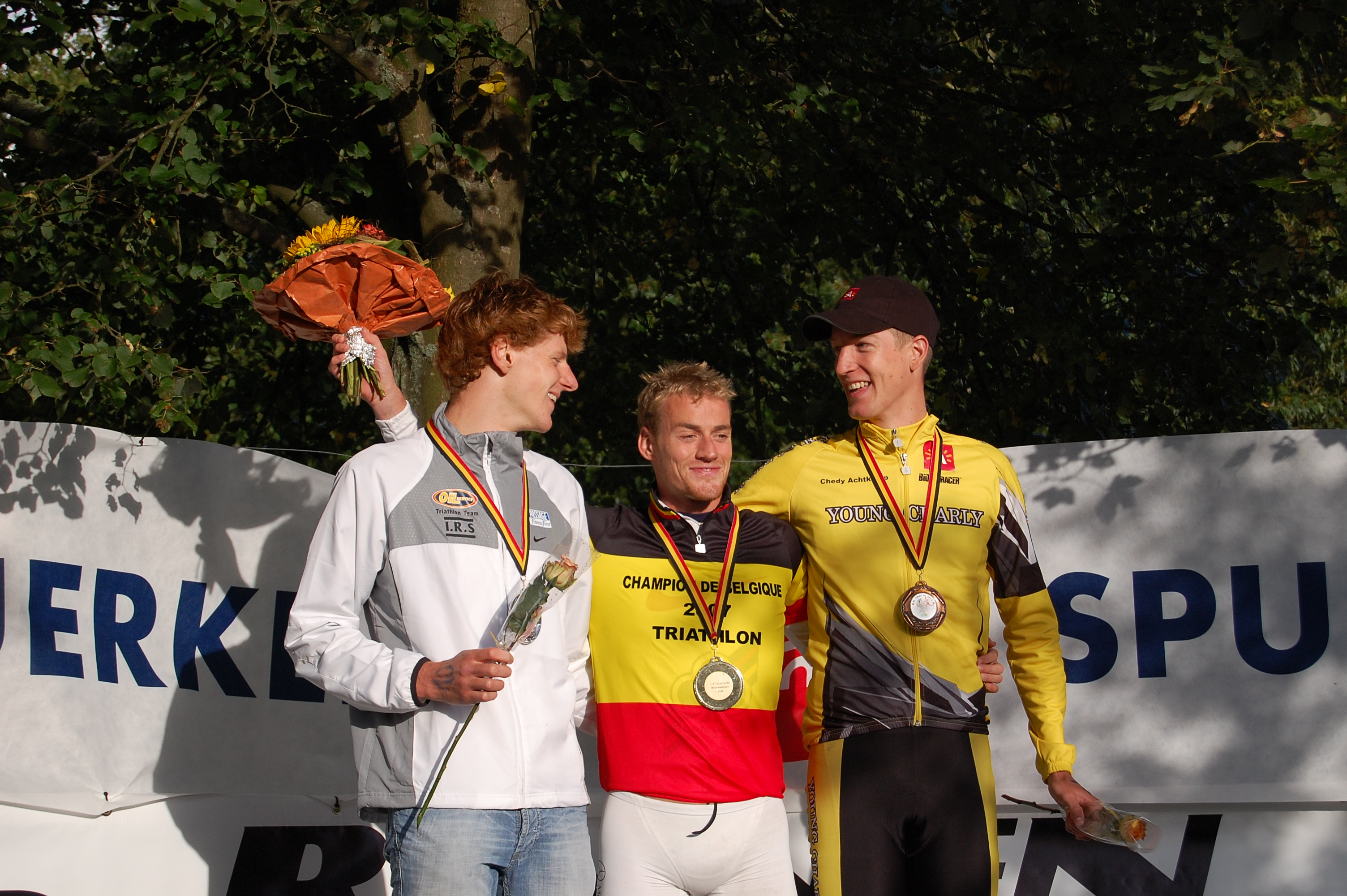 Lander Dircken, Stijn Goris and Peter Croes on the podium for the Belgians of the 2007 International Weiswampach Triathlon, Men.